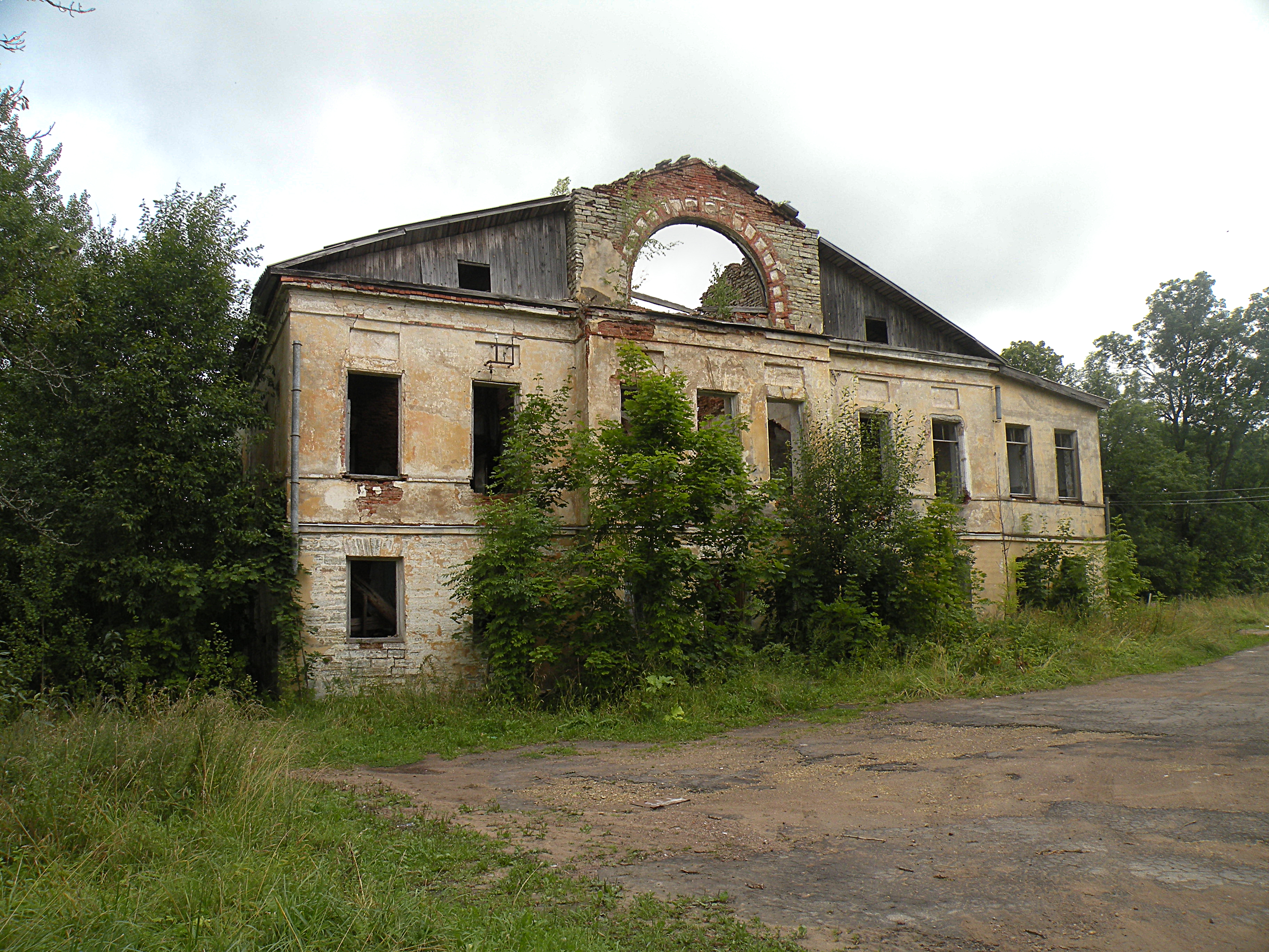 Mansion_in_Lopuchinka